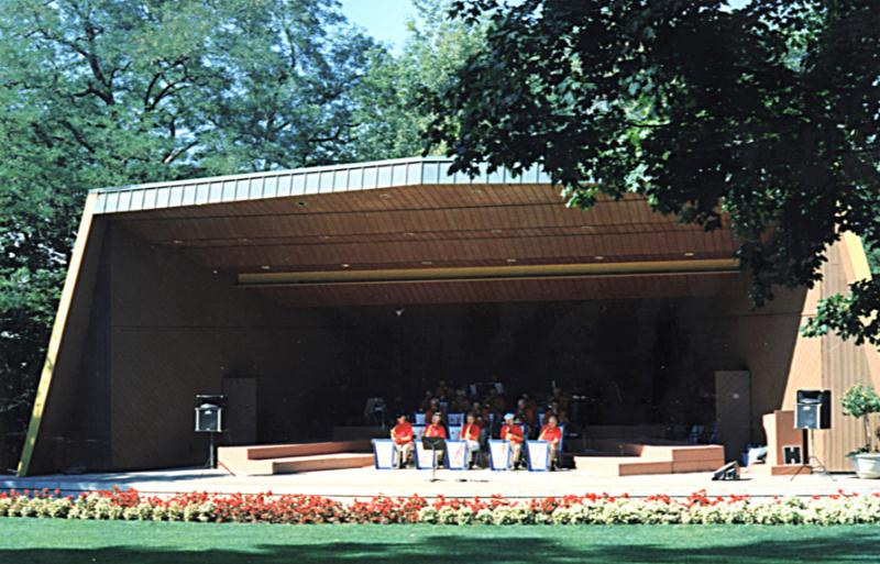 Bandstand in Queenston, Ontario葵因斯屯周末音乐会